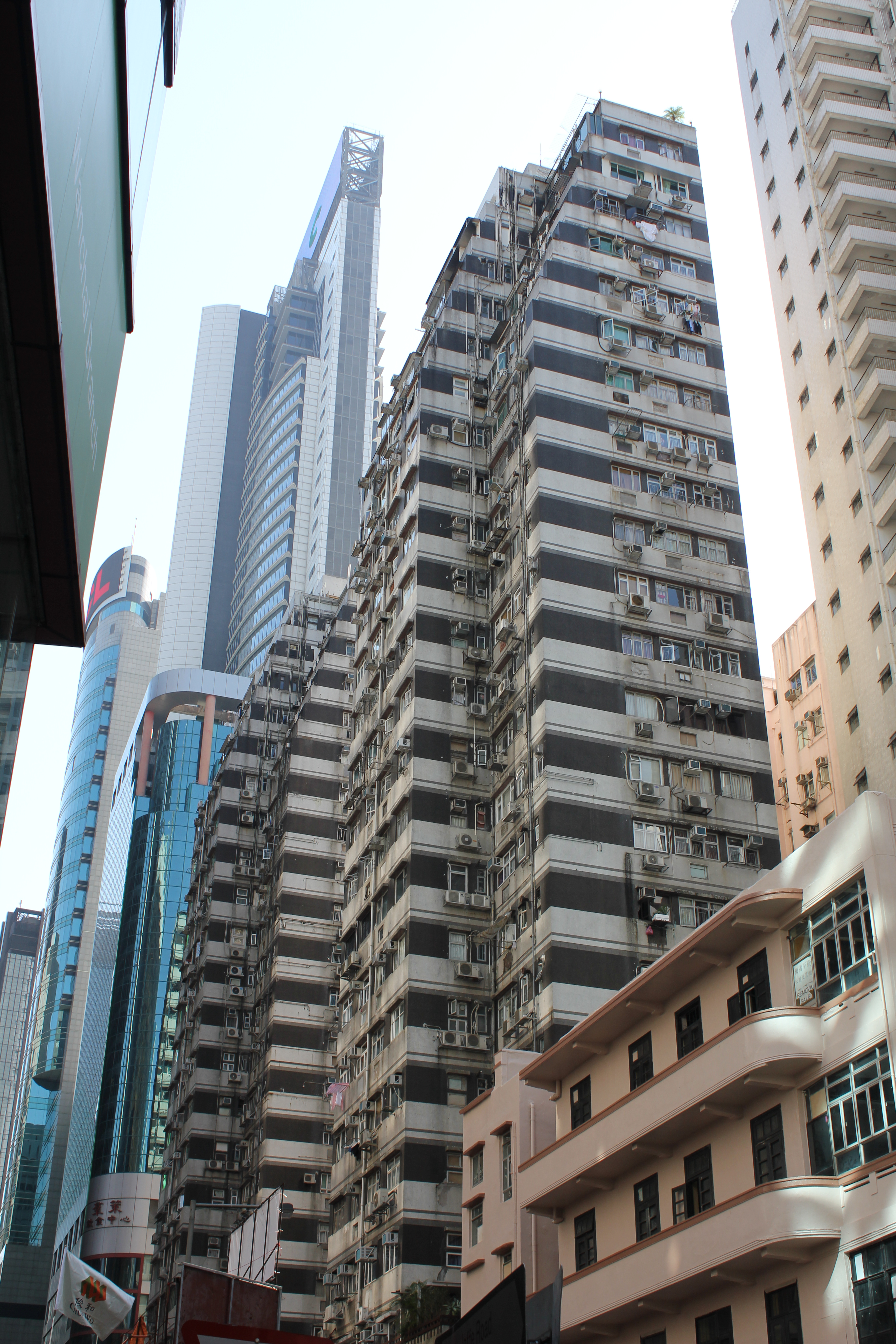 The Tonnochy Towers located at the intersection of Jaffe Road and Tonnochy Road in Wan Chai.